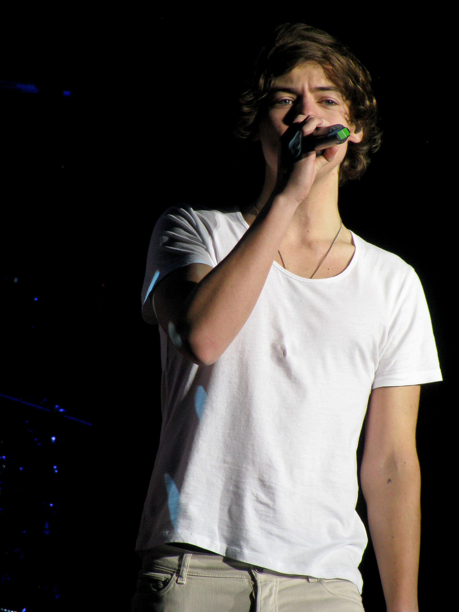 Harry Styles, One Direction, Molson Canadian Amphitheatre, Toronto, Ontario, May 29, 2012